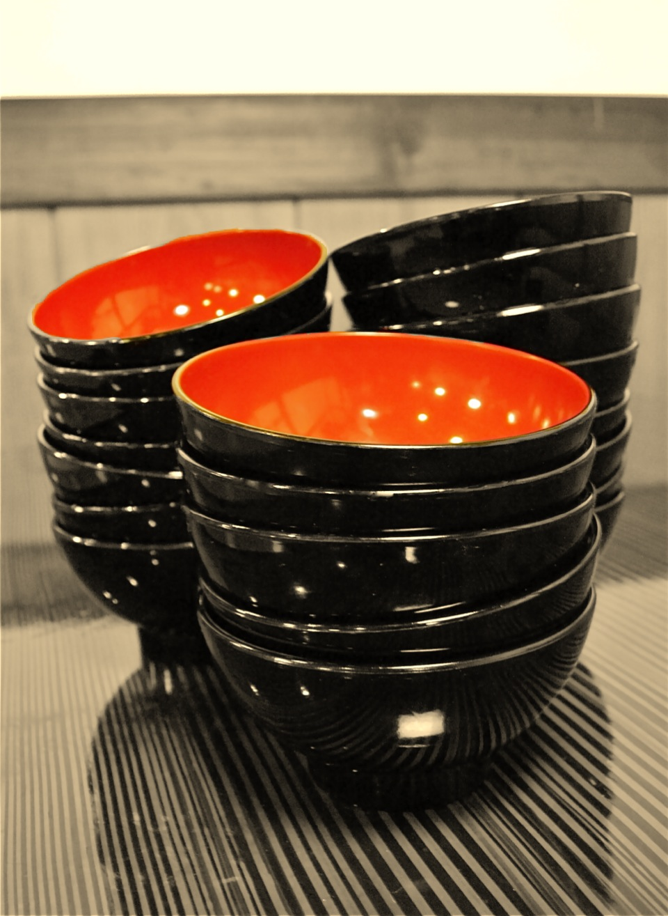 Empty bowls of Wanko soba (Soba served in bowls), one of the specialities of Iwate Prefecture, Japan